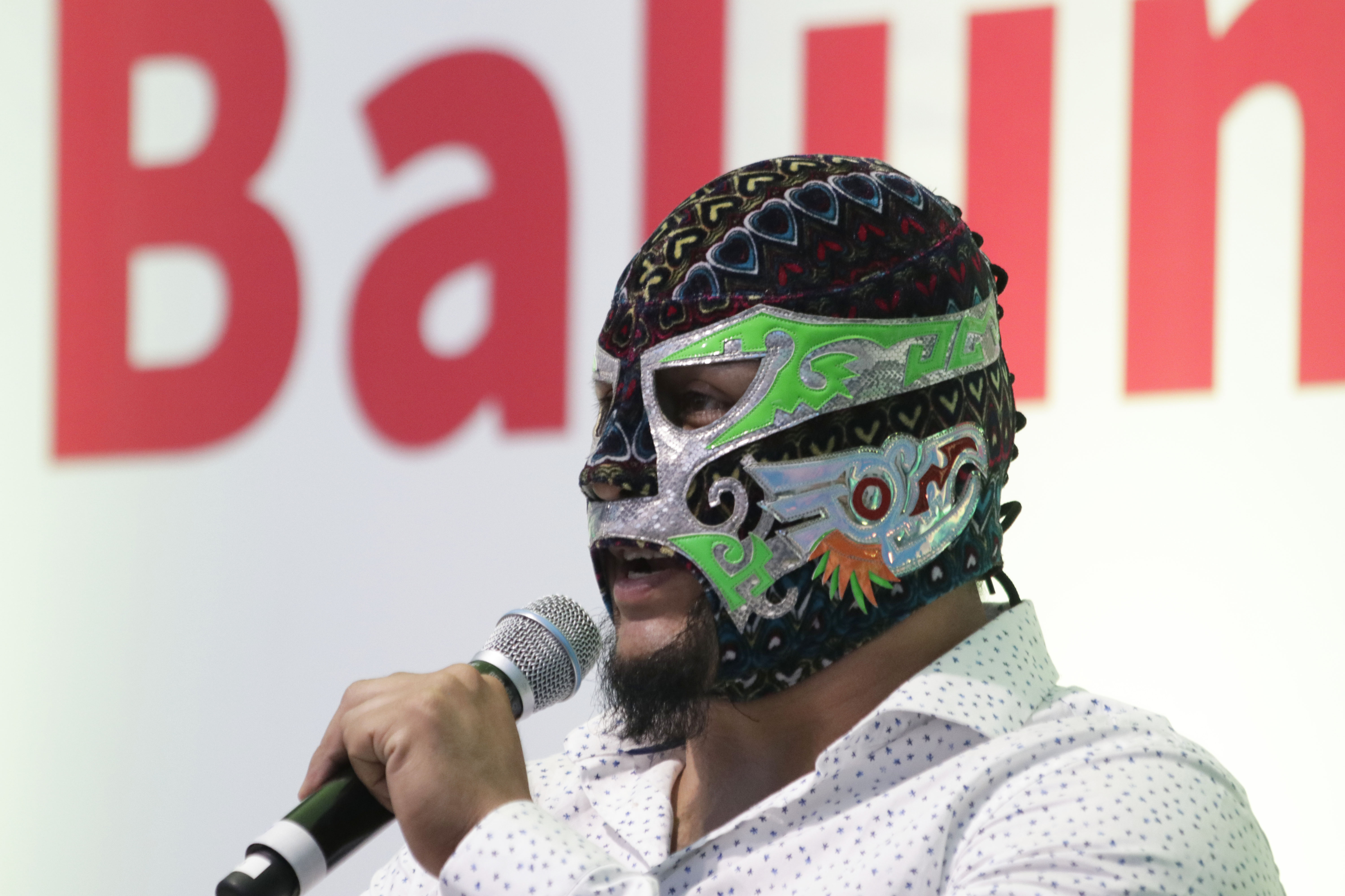 MiŽrcoles 16 de octubre de 2019\r\rEn el CafŽ Literario Balœn Can‡n de la XIX Feria Internacional del Libro en el Z—calo, 2019,Êse present— el c—mic Canek Jr. de Dan Lee y Raul ValdŽs, Editorial El gato y el petirrojo.\r\rFotograf’a: Tania Victoria/ Secretar’a de Cultura de la Ciudad de MŽxico\r